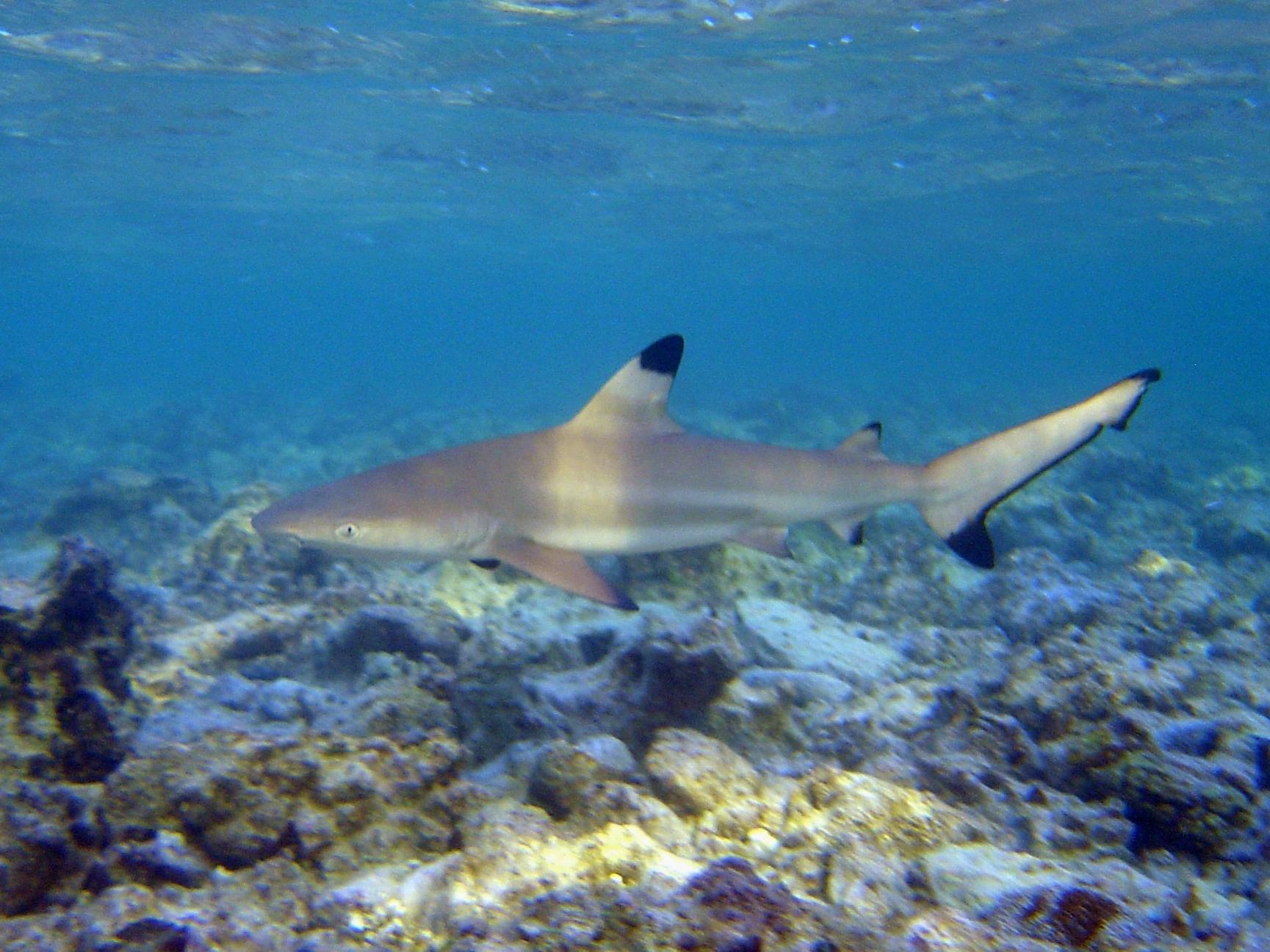 Blacktip reef shark (Carcharhinus melanopterus). Mariana Islands, Guam.